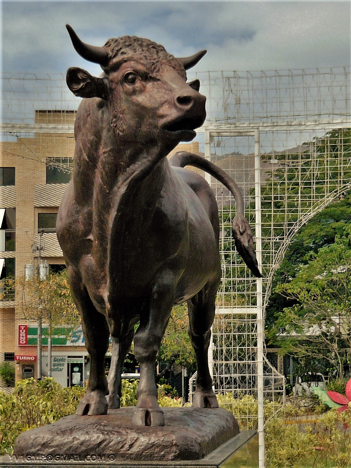 El Toro de Las Delicias is a bronze statue, one of several replicas in the world of the sculptor Isidore Bonheur. The bull measures 195 cm in height by 285 cm in length and 105 cm in width. The tail and head of the statue vary from one replica to the other. In the Maracay version, the tail bends in the opposite direction to the look of the head. The muzzle of the bull is open-mouthed, the jowls are wide and the horns of small caliber. The statue remained for several decades on a two-meter-high concrete pedestal. It was placed later on a base of smaller height, of marble, during the remodeling of the vial of the extreme north of Las Delicias. Despite the great boom of the bullfights in Maracay during the period that the statue arrived in Venezuela, the Toro de Las Delicias has an agricultural theme without suggestions of any influence of bullfighting.